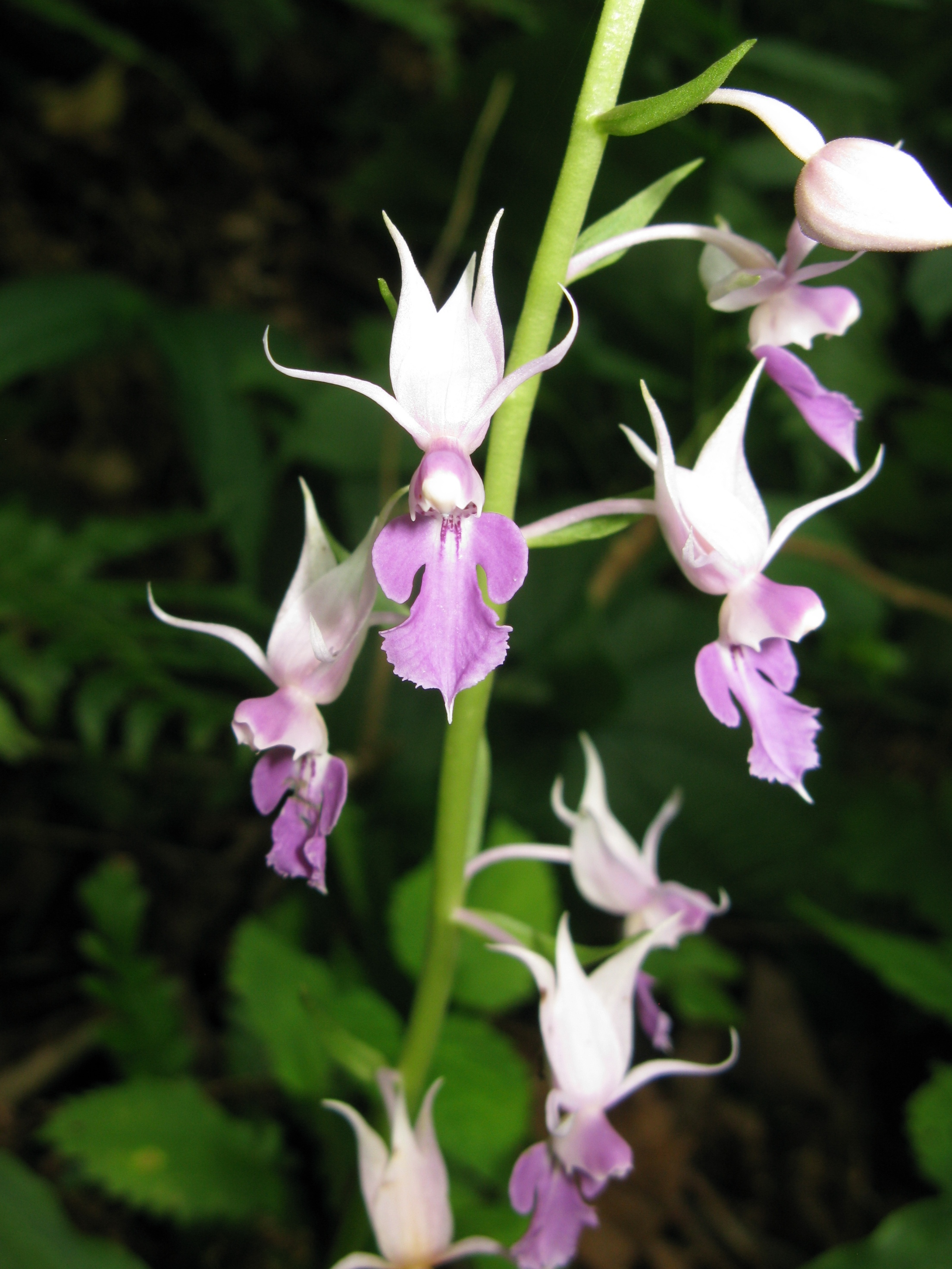 Calanthe reflexa, Mount Mikagura-dake, Niigata pref., Japan